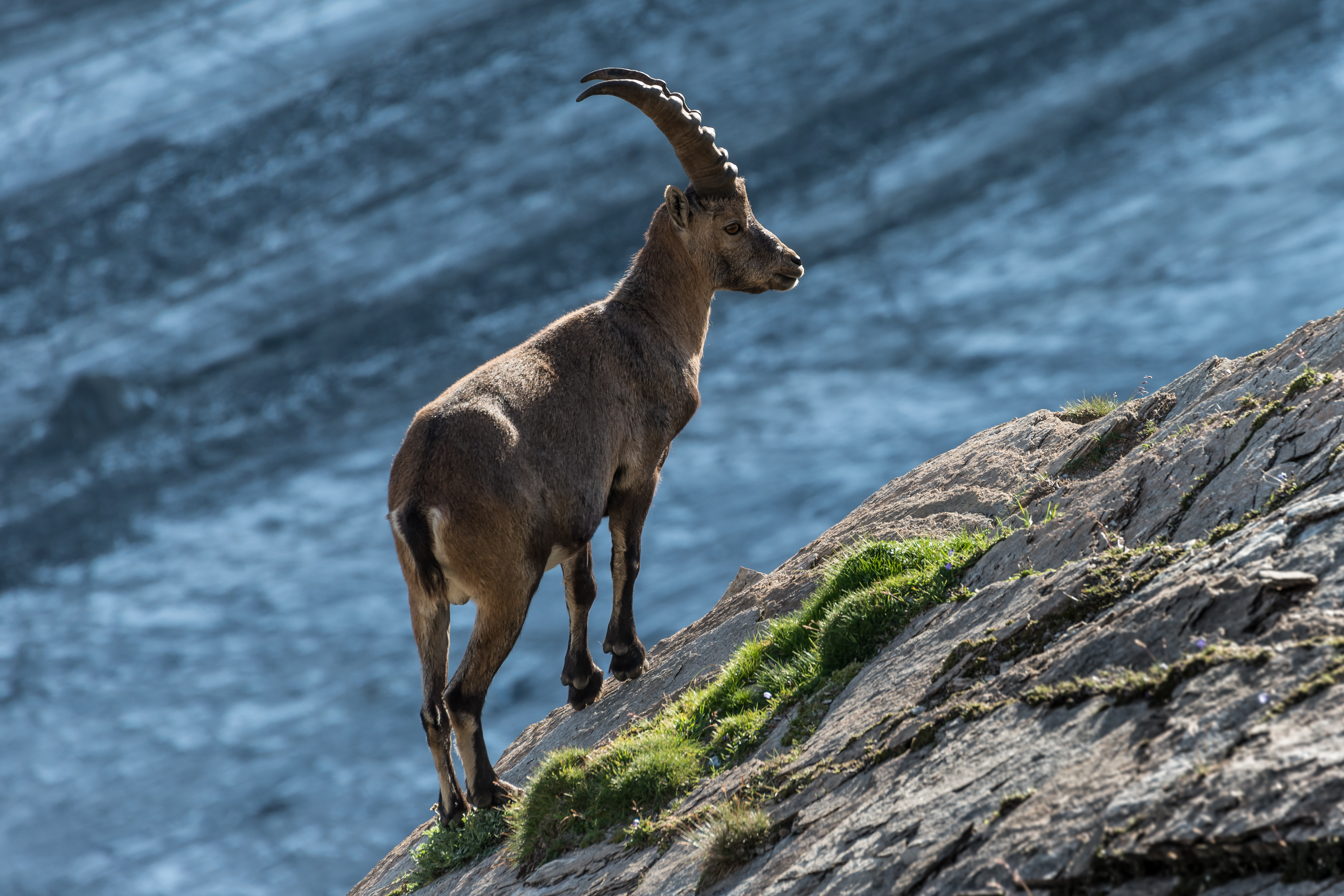 The Alpine ibex (Capra ibex), or Steinbock, is a species of wild goat that lives in the Alps. The males carry large, curved horns. This Steinbock lives next to the Pasterze glacier in the Austrian National Park "Hohe Tauern" in Carinthia (the ice field of the glacier constitutes the background of the image). In the evening, when the tourists leave the region, the shy animals are sometimes seen closer to the hiking trails than usual.